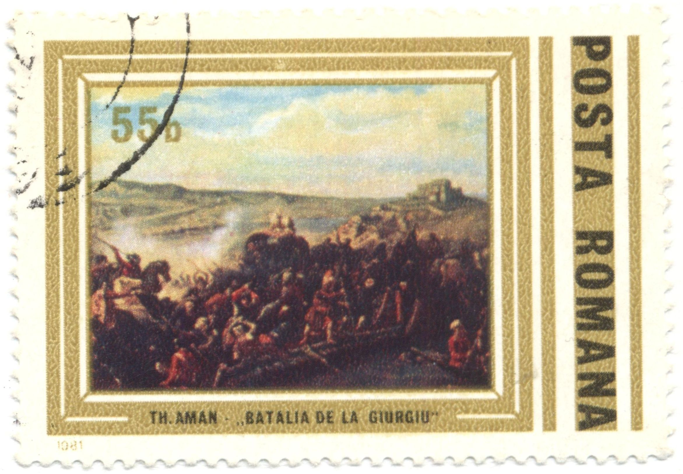 Battle of Giurgiu (1595) painted by Theodor Aman.